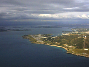 Aerial view of Guantanamo Bay, collected from [1] Web Archive URL, PD according to [2] Web Archive URL